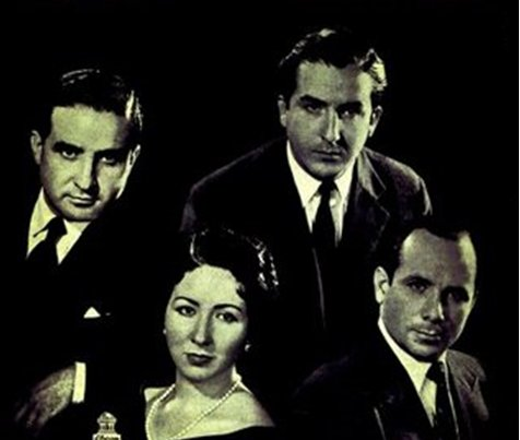 Cuarteto Gómez Carrillo. Argentina. Vocal group (folk/jazz/brasilean)